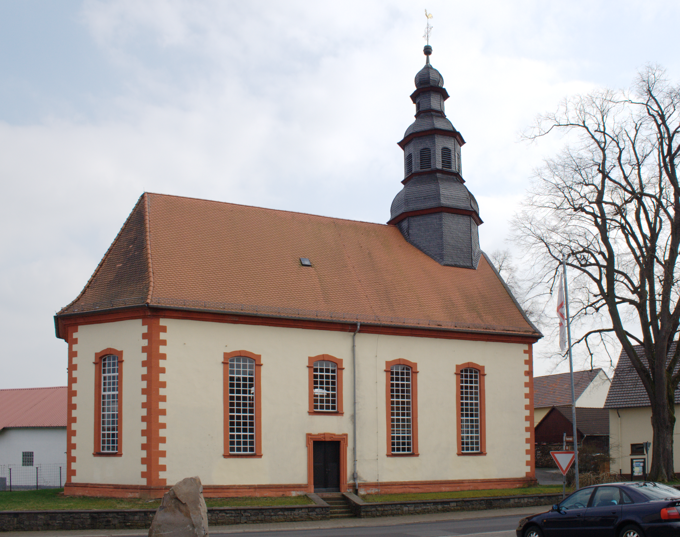 Protestant church in Ilbeshausen-Hochwaldhausen, Grebenhain, Hesse, Germany